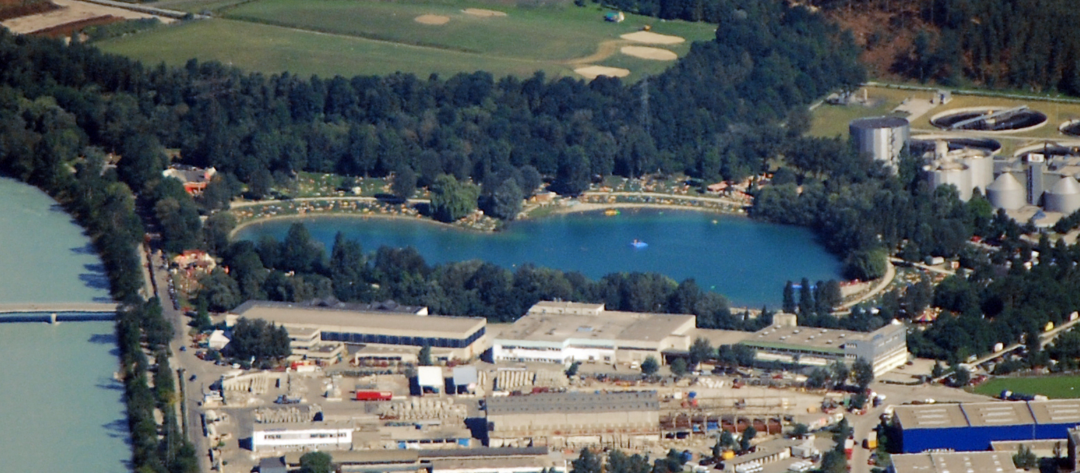 Baggersee Innsbruck (Badesee Rossau) from NW (Brandjoch)